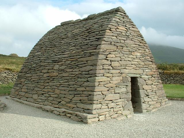 Gallarus Oratory - Dingle Peninsula, County Kerry, Ireland - September 2003